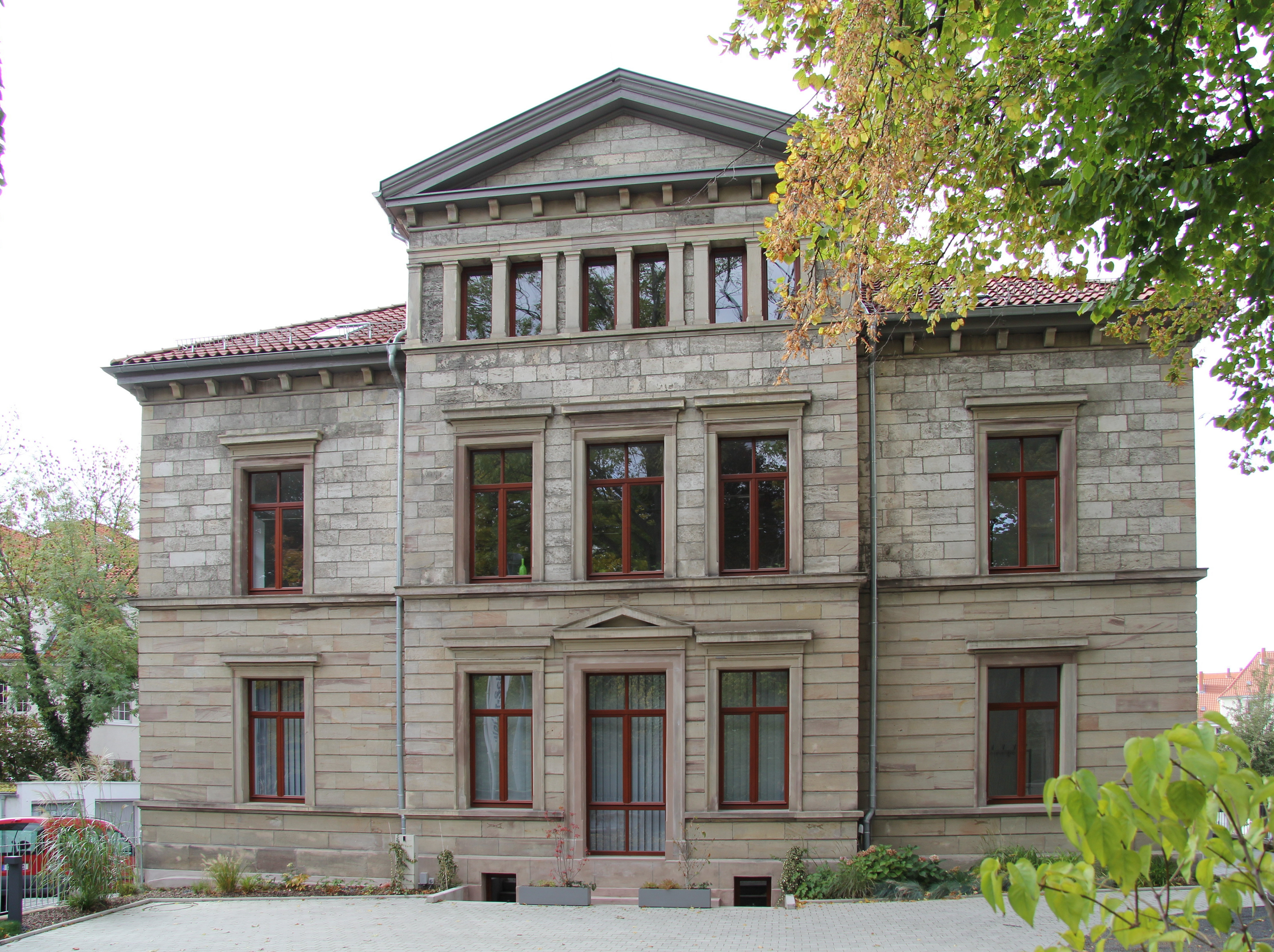 Former house of Corps Teutonia Göttingen, in Reinhaeuser Landstrasse 26 Göttingen/Germany, today used as a nurses' school ("Werner-Schule") of the German Red Cross (DRK)